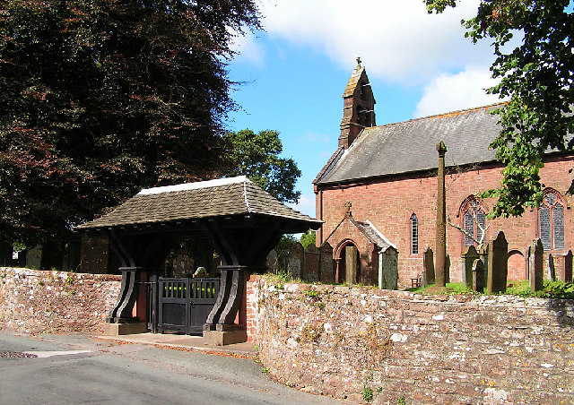 Parish Church, Gosforth. The well preserved viking cross is visible to the left of the wicket gate.